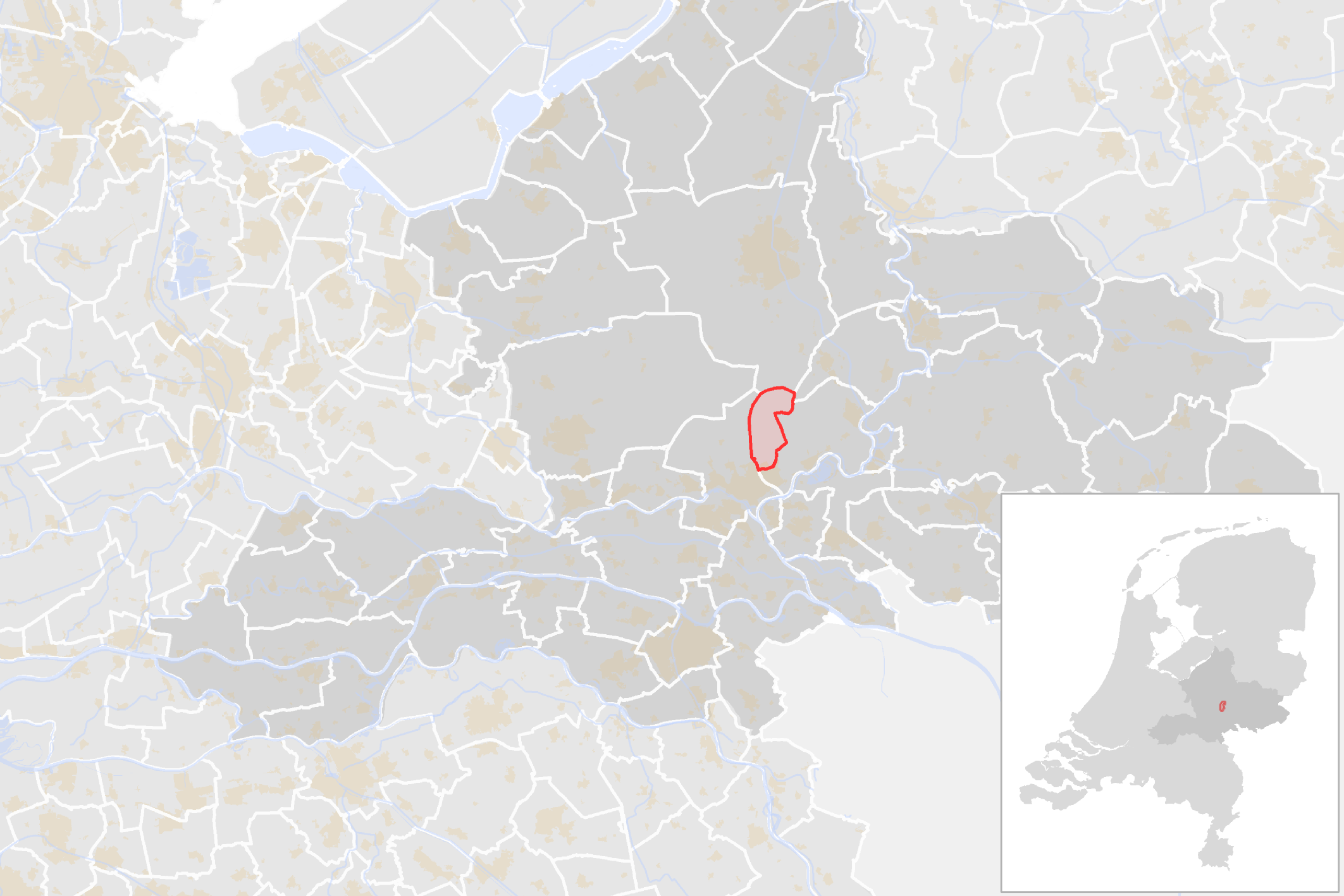 Locator map showing municipality boundary of one of the 390 Dutch municipalities (as of 2016)